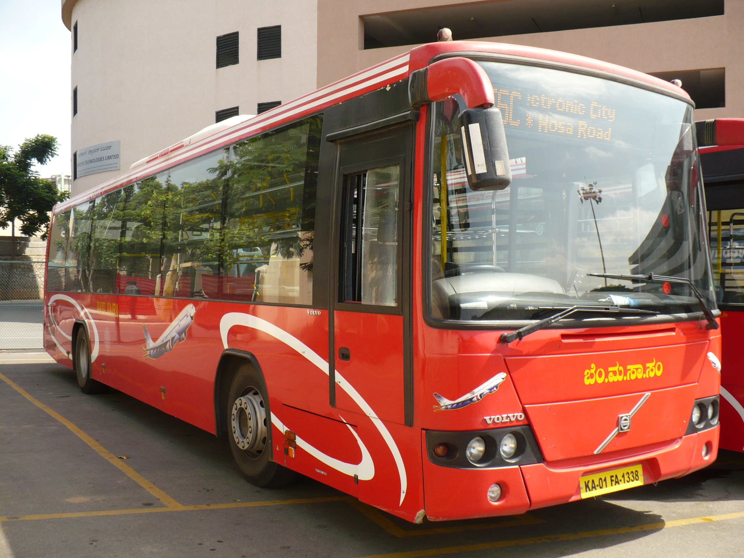 A Volvo B7RLE bus managed by the Bangalore Metropolitan Transport Corporation in Bangalore (Bengaluru), India.